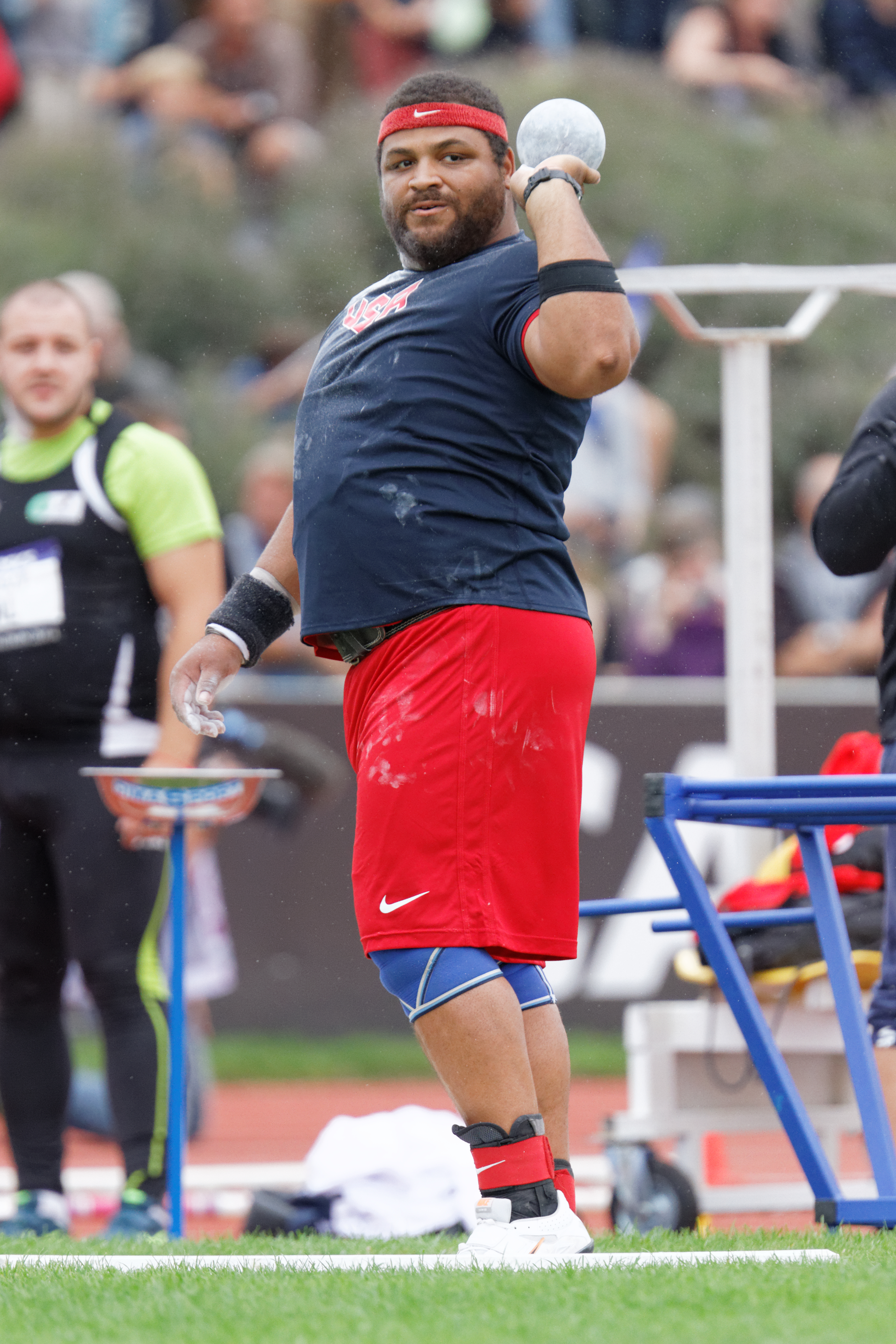 DécaNation 2014. Shot put. Reese Hoffa.